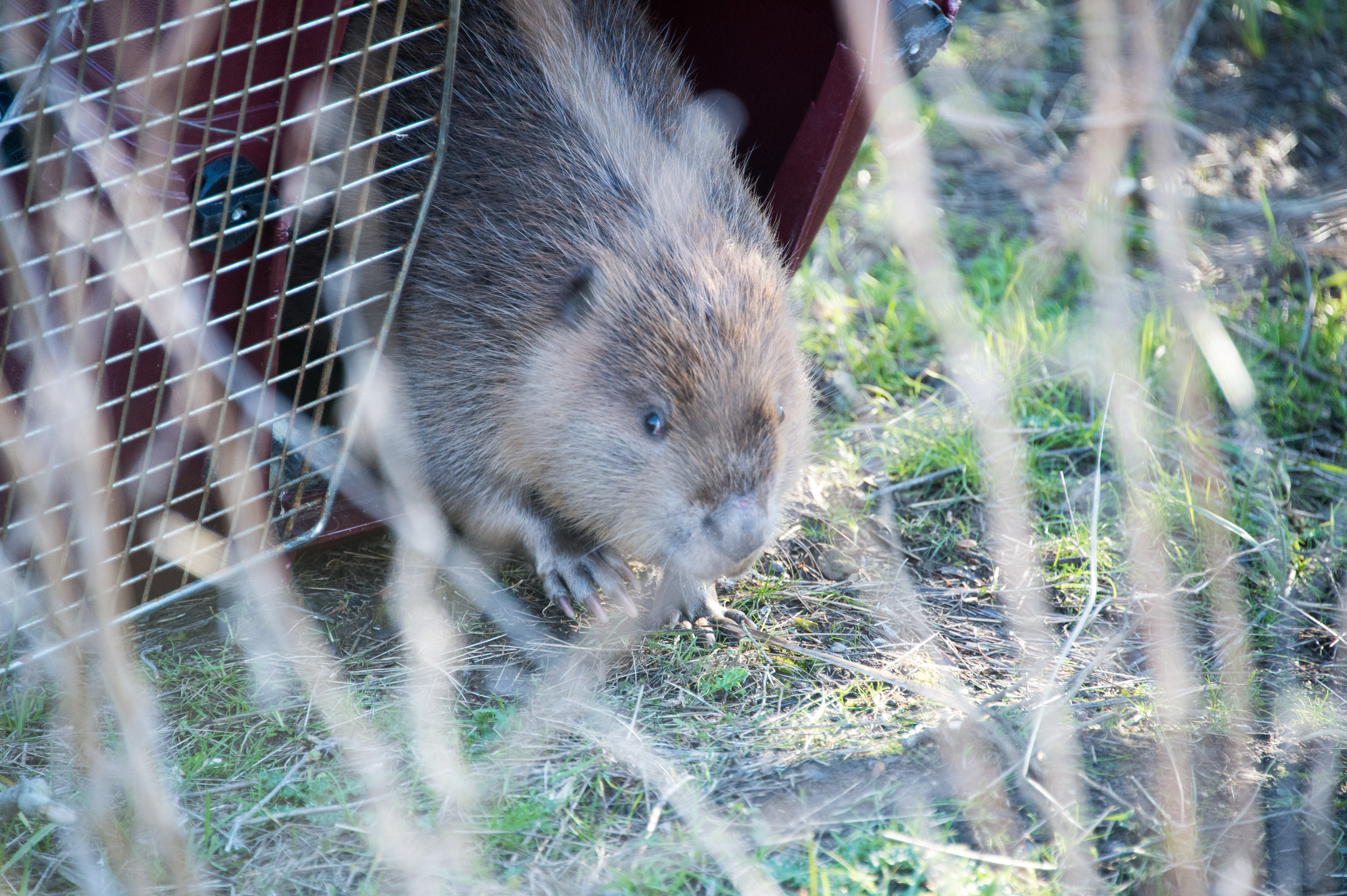 Former Lindsay Wildlife Hospital patient (beaver) returning to the wild.